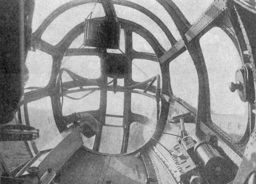 Aero A.300 photo from L'Aerophile February 1939